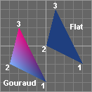 Illustration of shading modes on triangles.